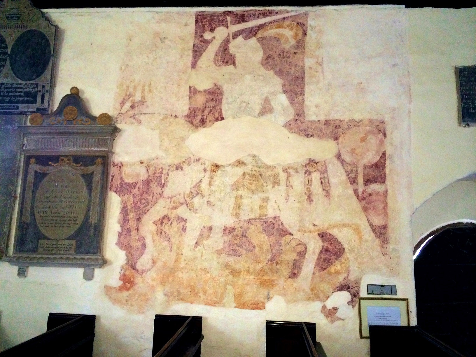 C15th Mural of St George at St Cadoc's at Llangattock Lingoed